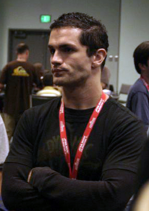 Sam Witwer at Celebration IV in 2007.